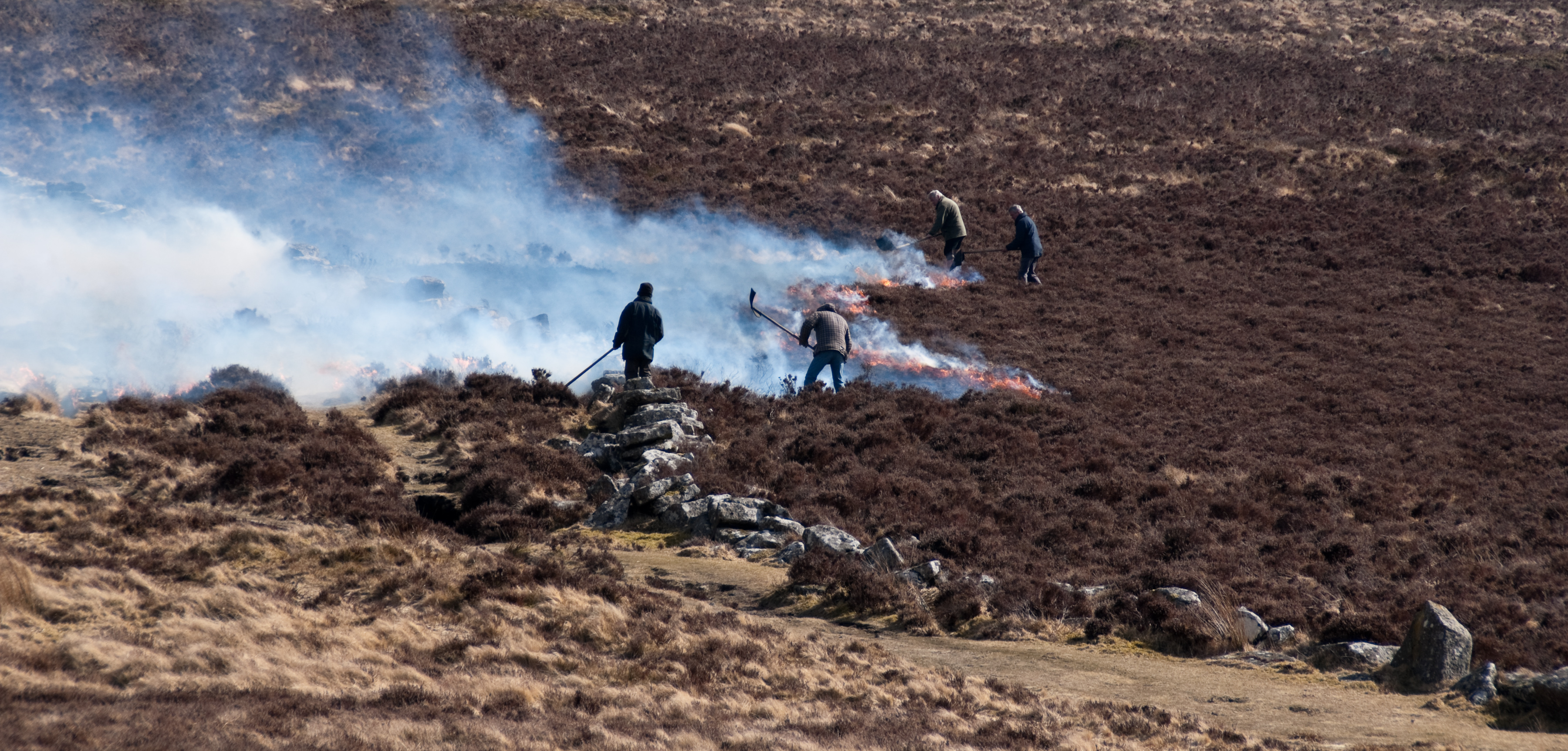 This shows the control of gorse by burning on Dartmoor, Devon, UK. The gorse is burnt off in a controlled manner to allow grass and heather to regrow and feed livestock. In this image beaters are being used to prevent the fire burning outside the approved area.